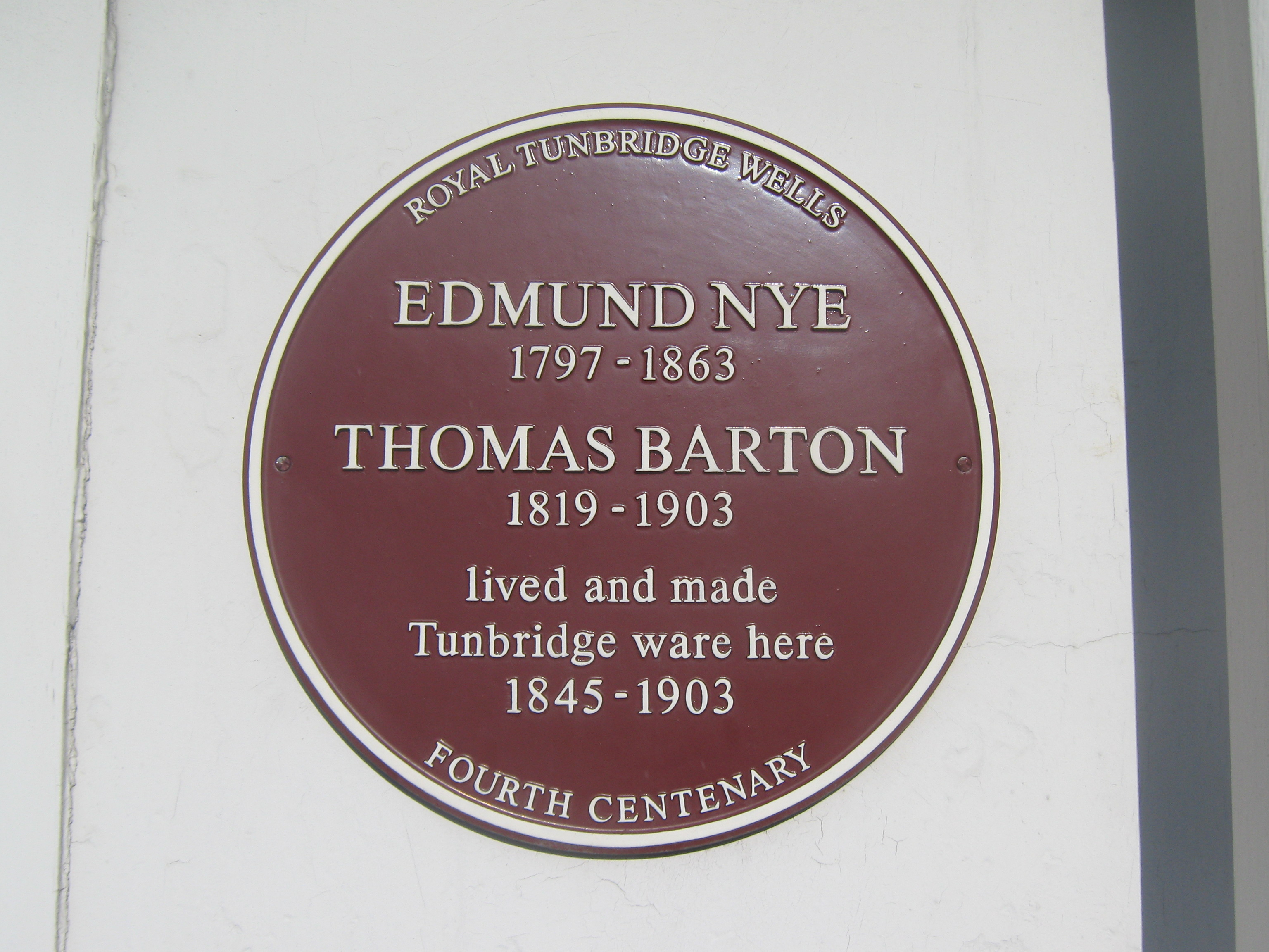 Edmund Nye and Thomas Barton Plaques. As seen on 1731815. for more details on Tunbridge Ware and Mr Nye and Mr Barton.